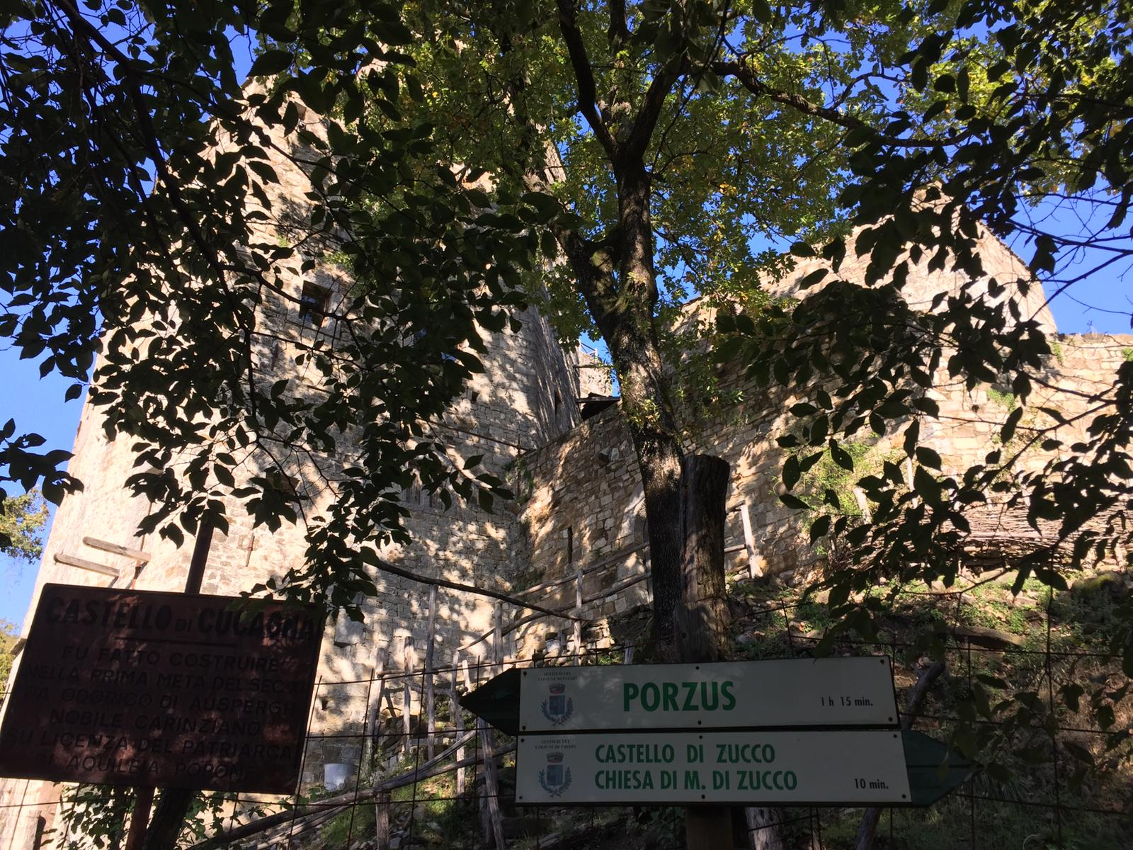 Cucagna